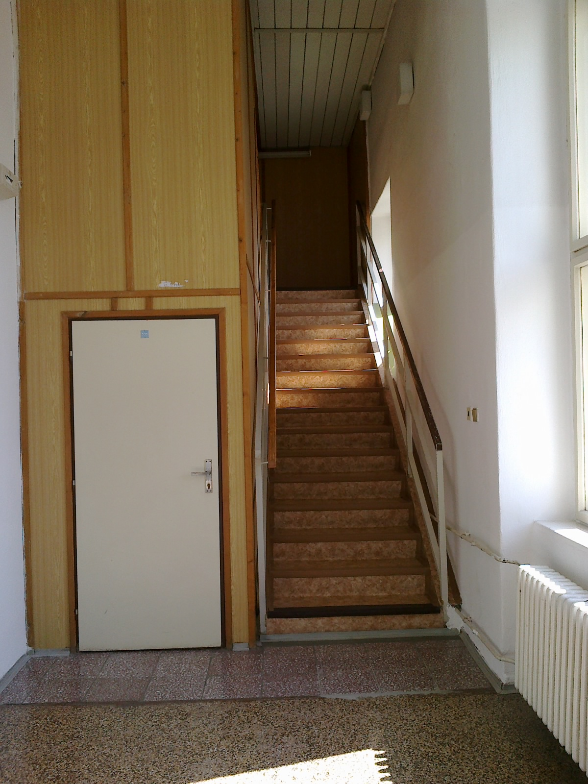 School in Znojmo